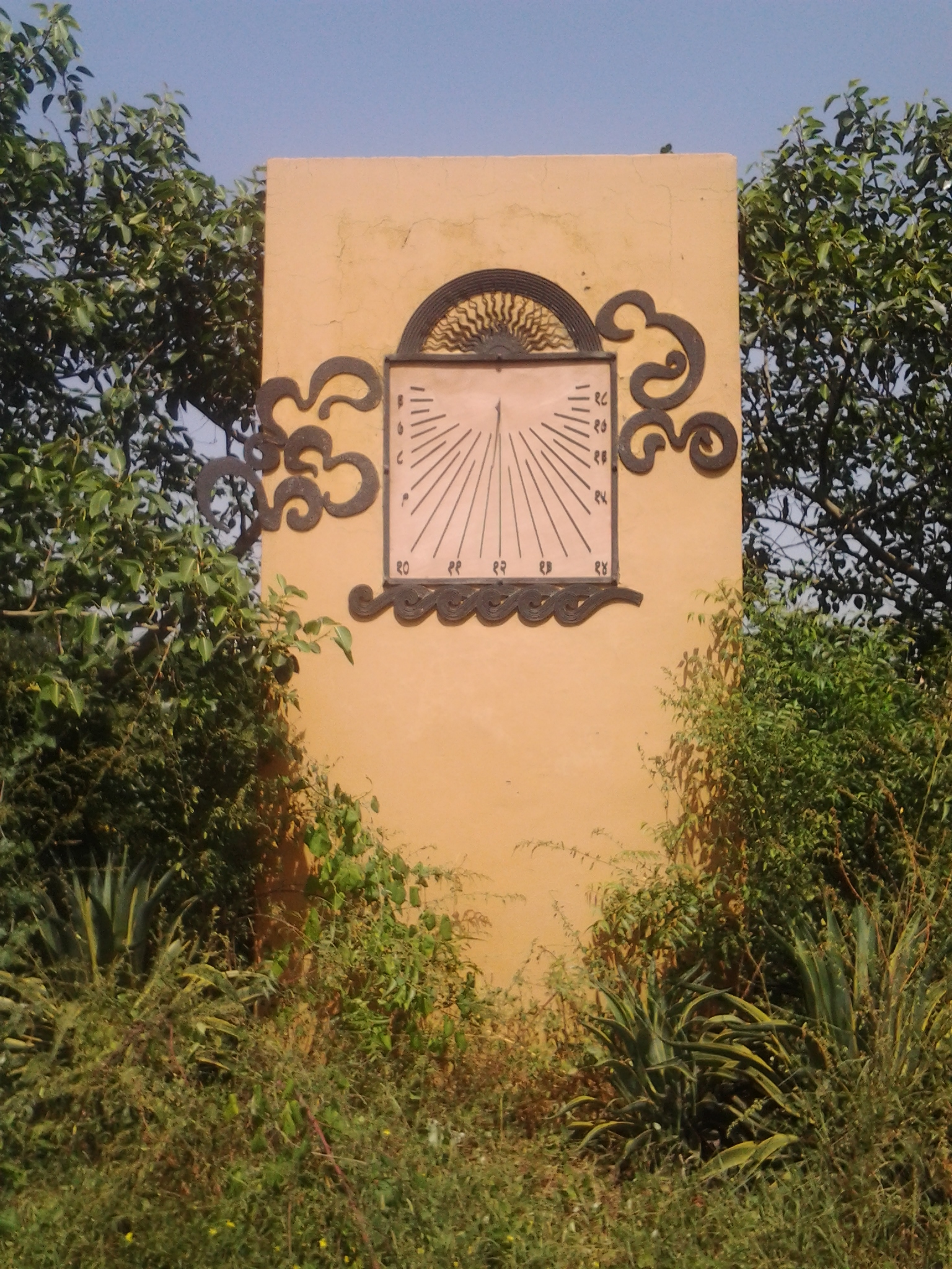 Historical sun shadow based clock inside the Garden of Five Senses, Delhi